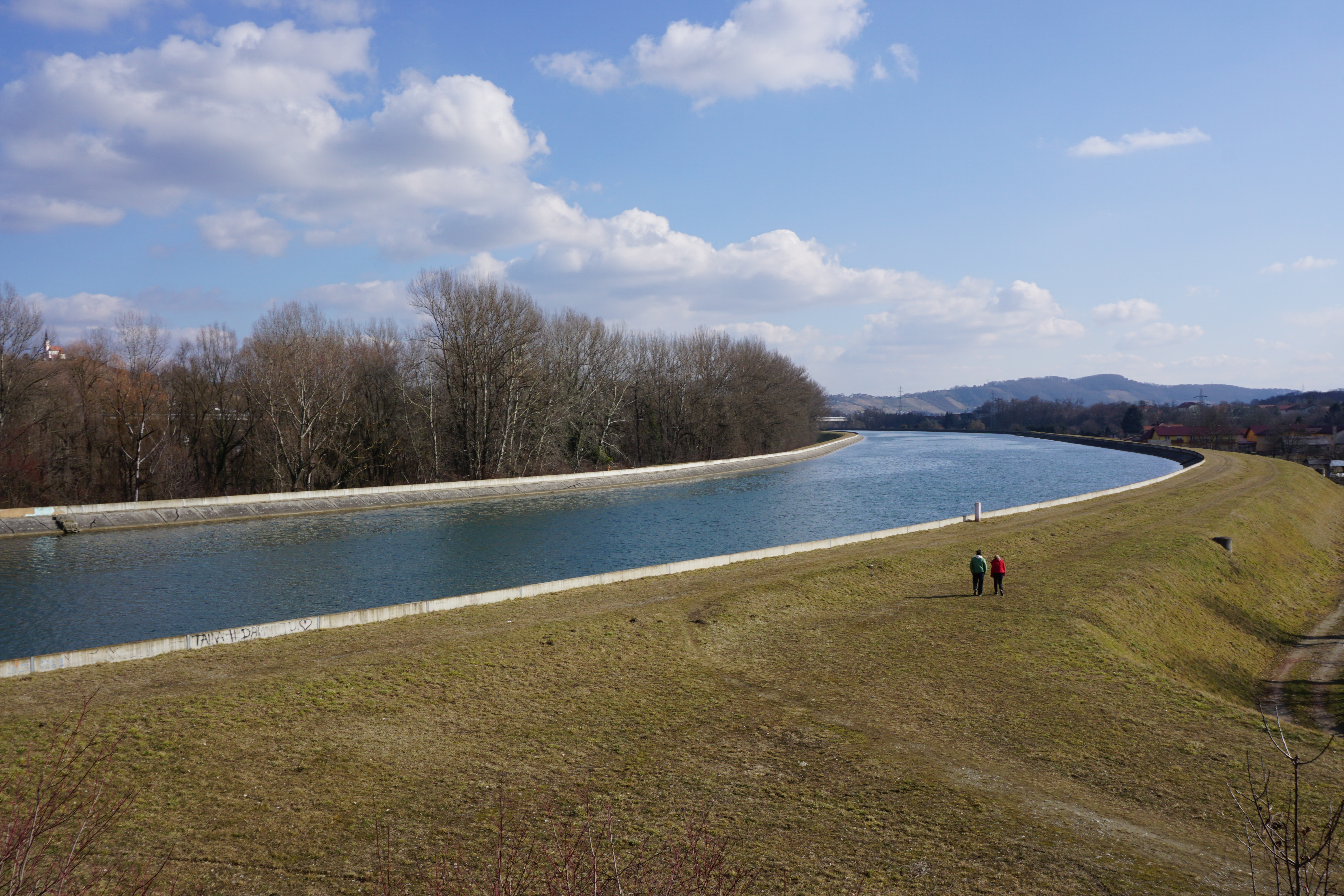 Kanal HE Zlatoličje